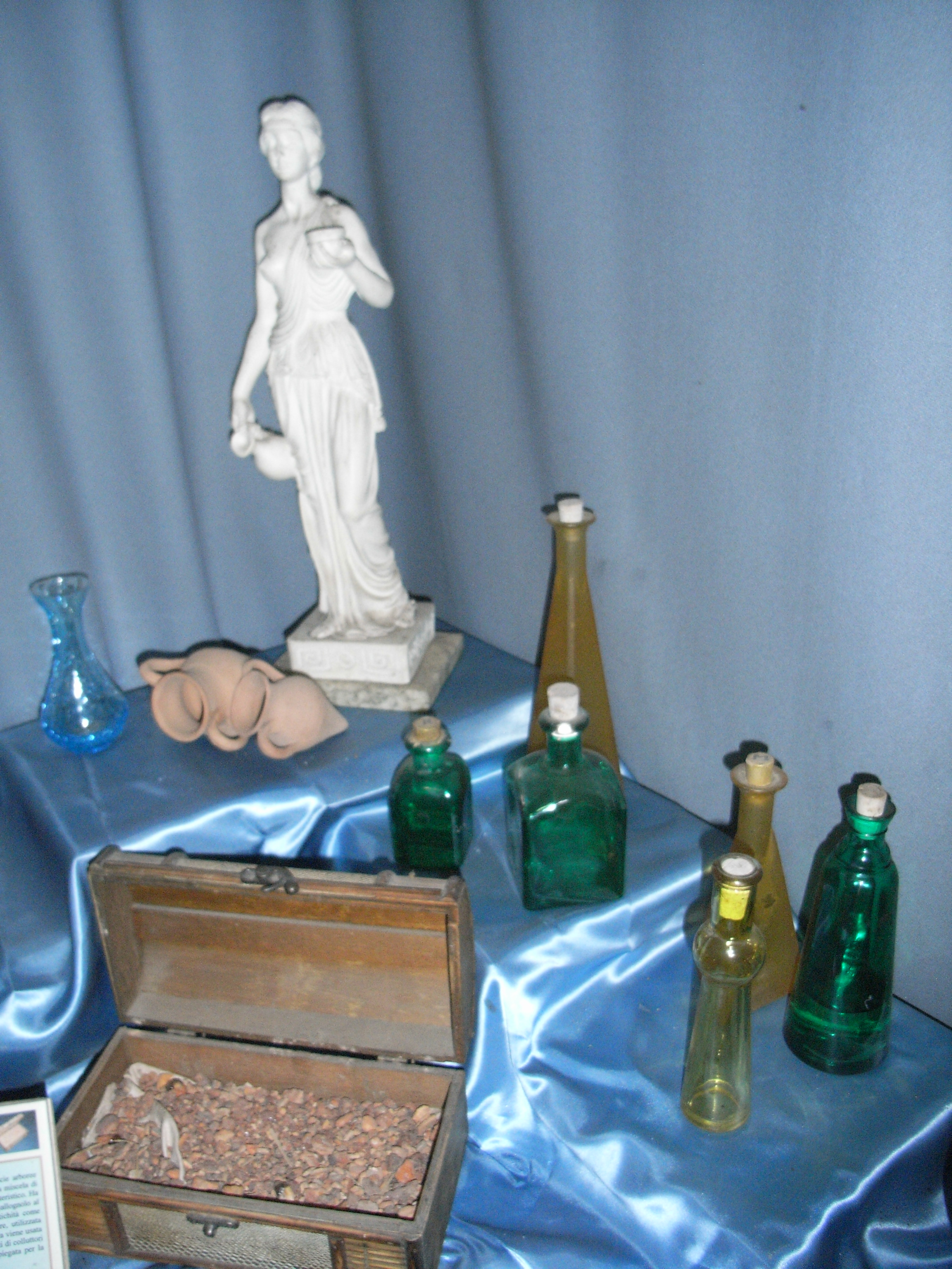 Amphora, scented body oil, perfume bottles, rose petals and a figurine. The perfume bottles (Ungnentaria) used by the Romans were made of alabaster, onyx or glass. The glass bottles were in a wide variety of shapes, many of them identical to the scent bottles of the present day. Cosmetics were applied in private, usually in a small room where men did not enter. Cosmetae, female slaves that adorned their mistresses, were especially praised for their skills. They would beautify their mistresses with cultus, the Latin word encompassing makeup, perfume and jewelry. Photograph taken with permission at Museo Gruppo Storico Romano Museum in Rome